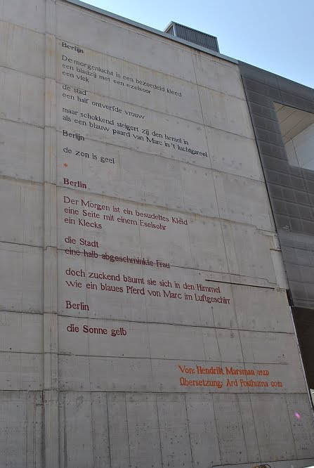 Poem "Berlijn" by Hendrik Marsman on the wall of the Dutch embassy in Berlin